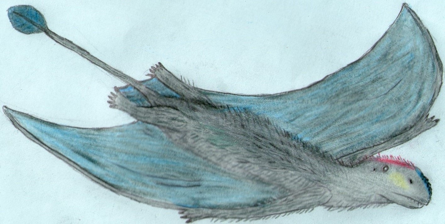 Restauration the peteinosaurus Derivative works of this file